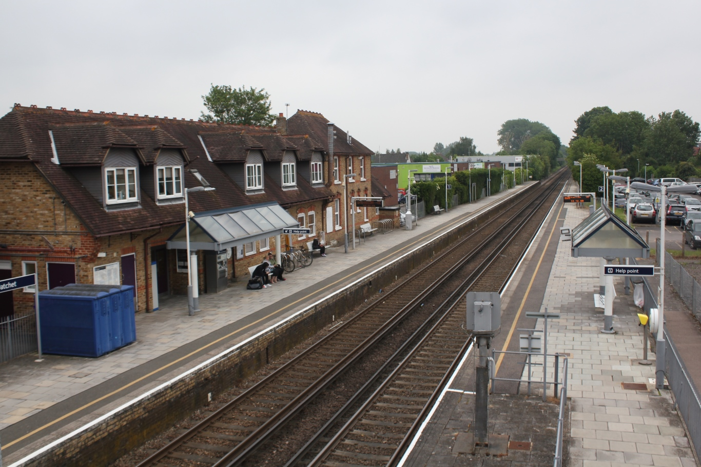 Datchet railway station, looking up the line towards Staines and London.